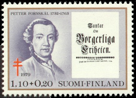 Postage stamp depicting the famous Finnish explorer, orientalist and naturalist Petter Forsskål